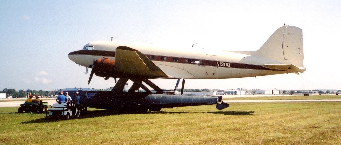 DC-3 (N130Q) on Floats, Sun-n-Fun 2003, Lakelake, FL